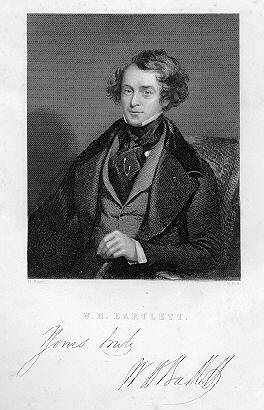 Fine steel engraved views of Canada c. 1842 by William Henry BARTLETT: Working A Canoe Up A Rapid. Many Figures.